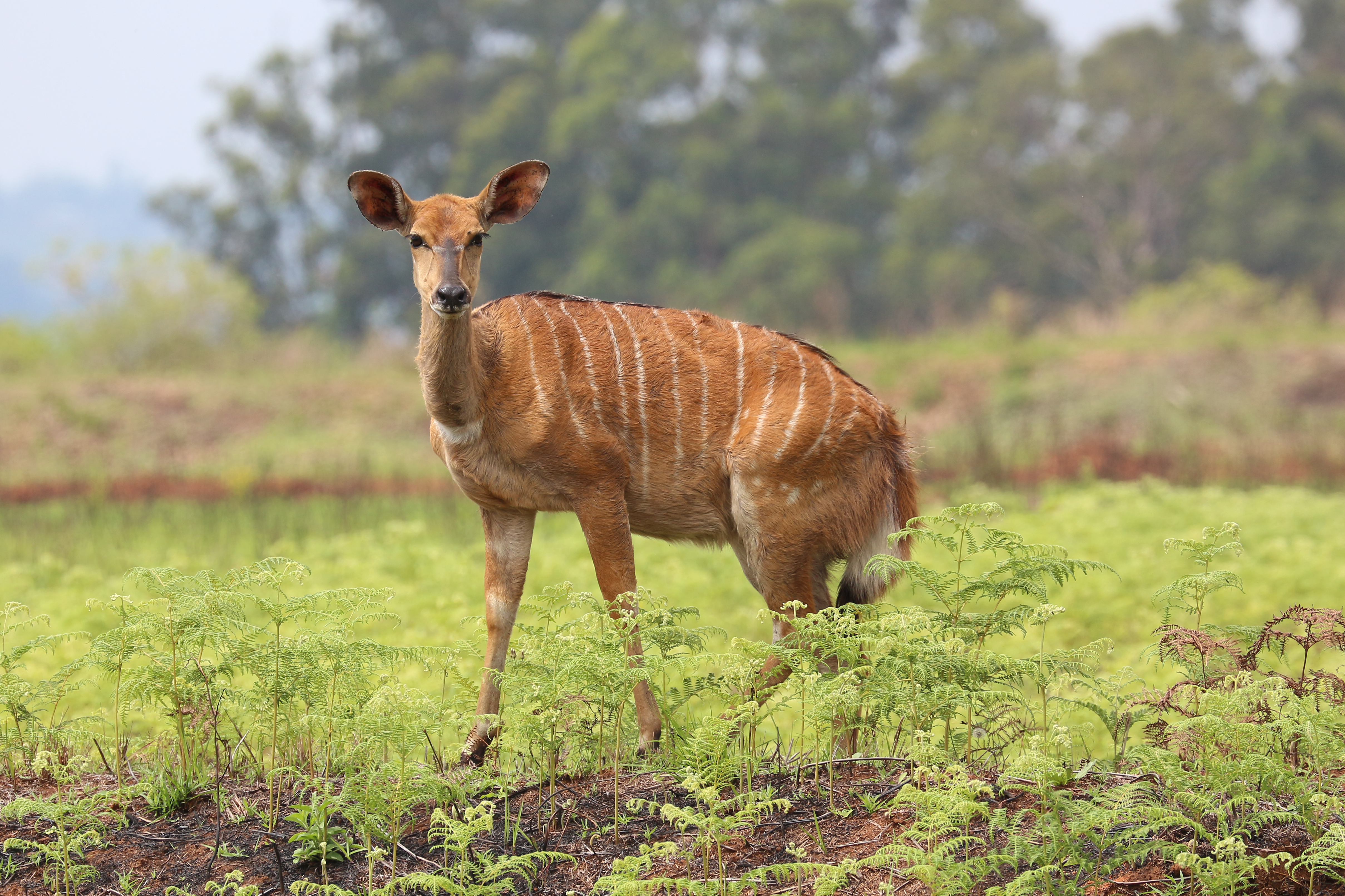 Female Nyala (Tragelaphus angasii) in Mlilwane Wildlife Sanctuary, Swaziland